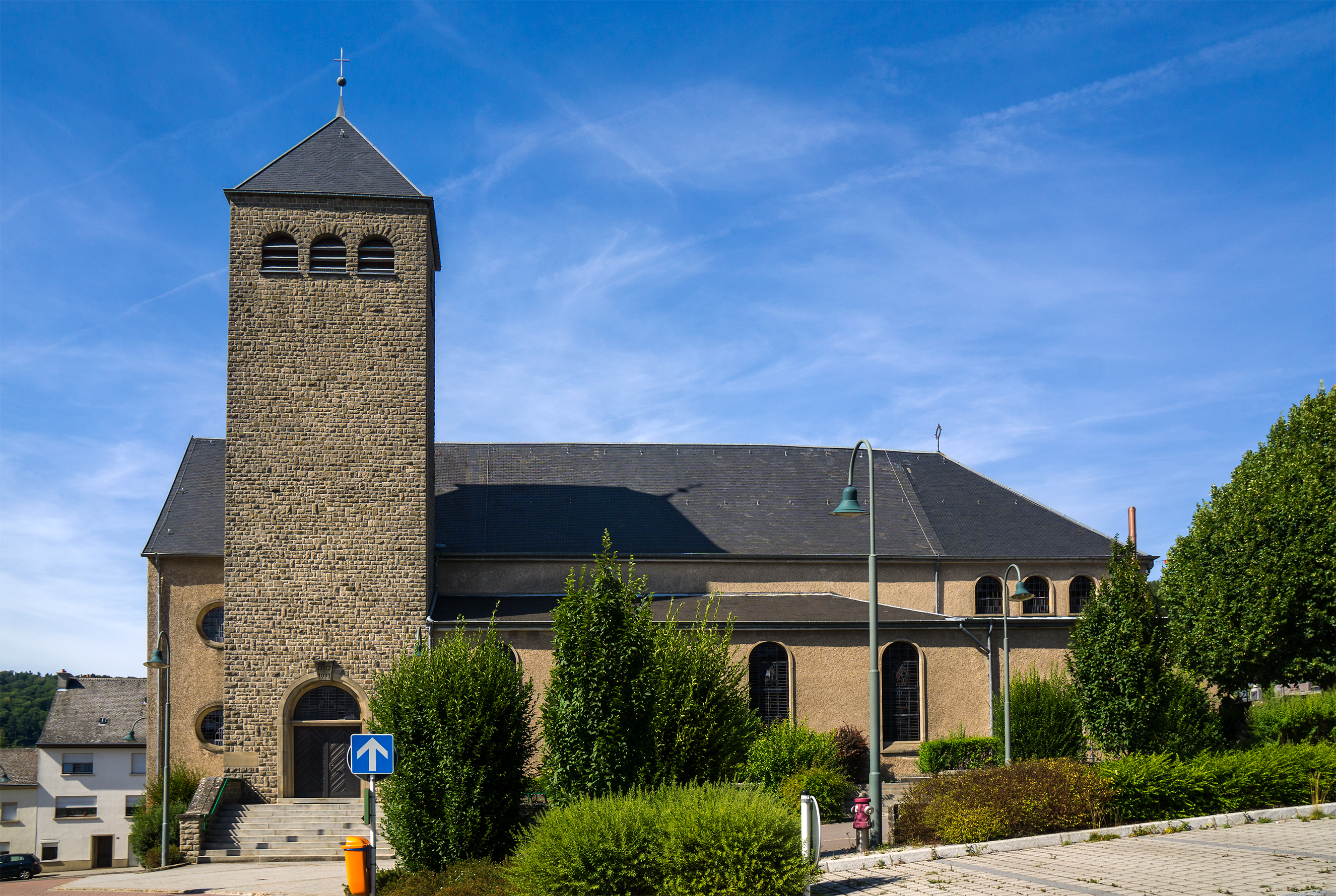 Church of Lorentzweiler